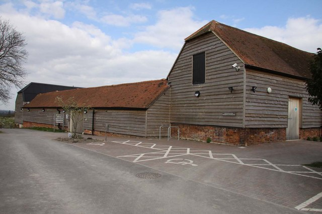 Project Timescape, Hill Farm, Little Wittenham, Oxfordshire (formerloy Berkshire)